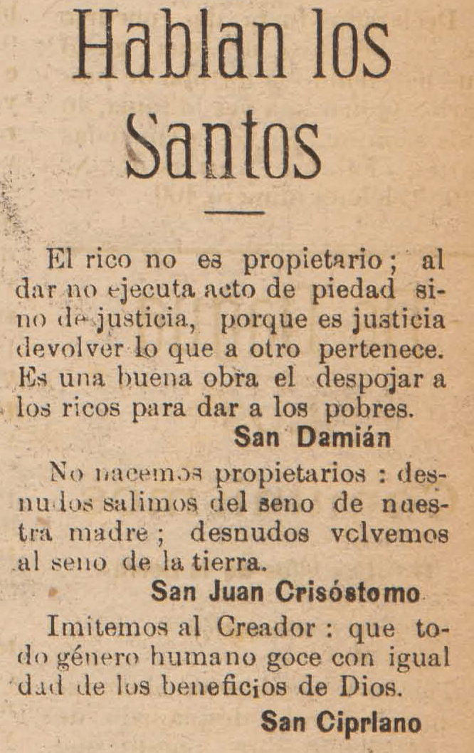 Sección "Hablan Los Santos"